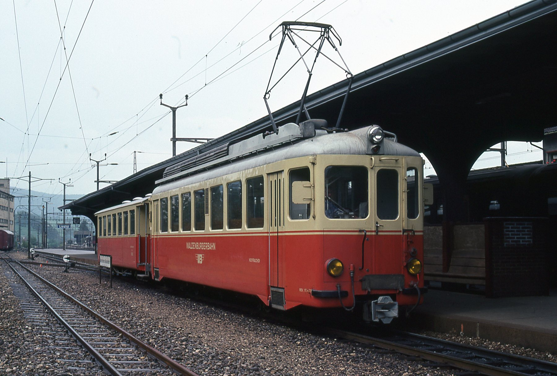 Train of the Waldenburgerbahn (a 750mm-gauge light railway in Basel-Landschaft canton, Switzerland), at Liestal station. This a 1953-built Schindler motor tram and an older trailer.